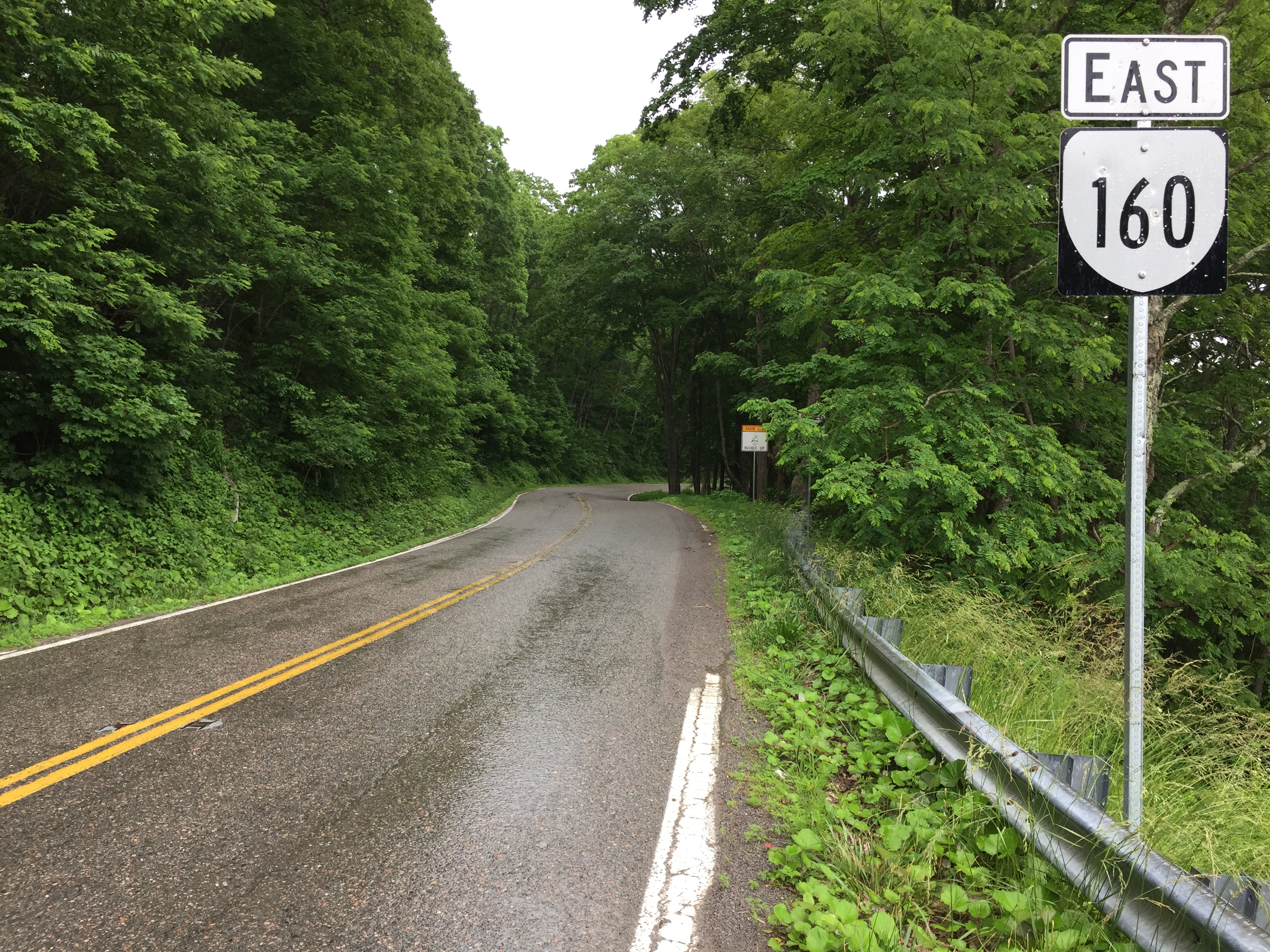 View east along Virginia State Route 160 (Inman Road) just east of the Kentucky state line in Wise County, Virginia